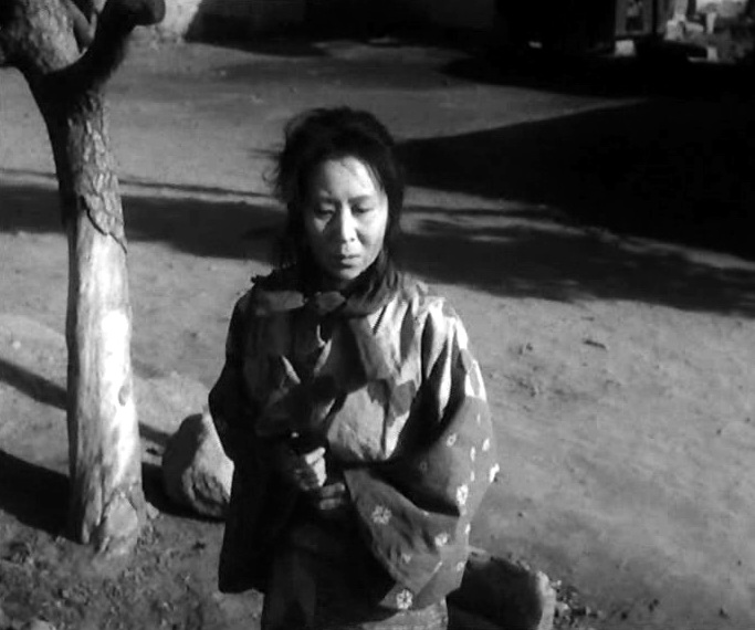 Screenshot from The Life of Oharu, 1952 film. Kinuyo Tanaka as Oharu.